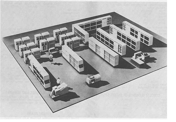 DATAmatic 1000 computer system, Honeywell, Inc. 1957. Photo from A third survey of domestic electronic digital computing systems. "Department of the Army project no. 5B03-06-002. Ordnance management structure code no. 5010.11.812."